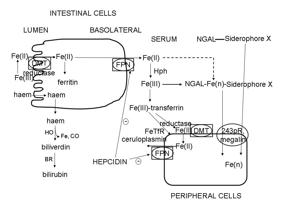 Schematic overview of the main elements considered to participate in mammalian iron metabolism. Kell BMC Medical Genomics 2009 2:2